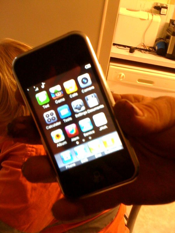 ordered via ebay - this is a &aphone by sciphone. It is suspiciously like an iPhone, except that it is dual sim, quad band and can be used with a stylus. Hopefully it will provide coverage for Scotty when he is out on site in various remote locations.